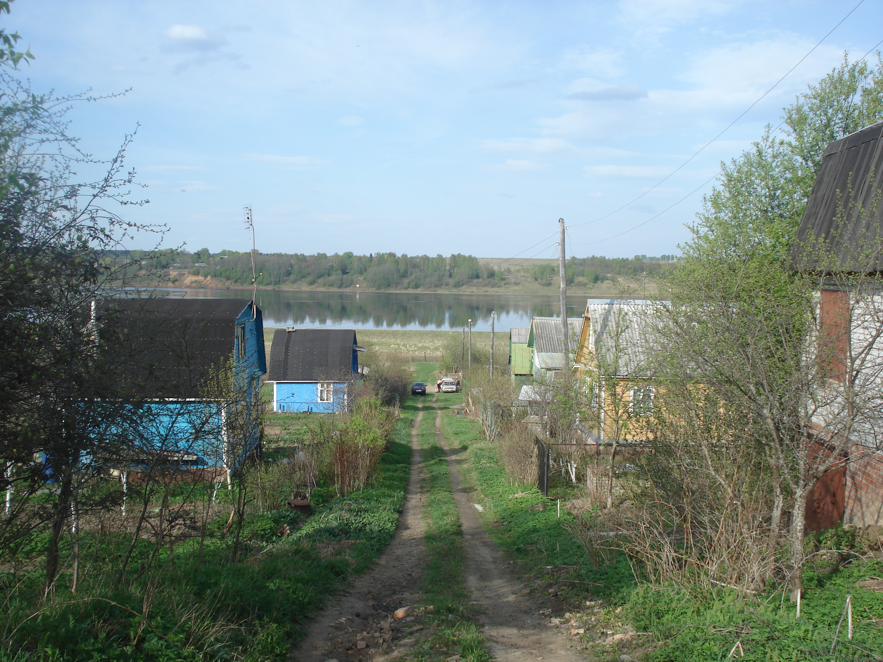 Дачи на берегу Волги в Тутаевском районе Ярославской области